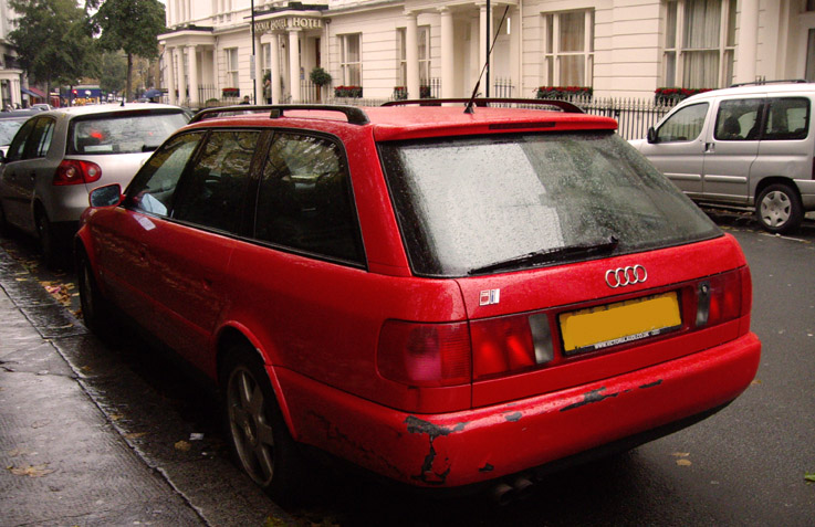 Audi S6 Estate in Bayswater